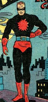 Firefly, the Archie Comics superhero. in Top-Notch Comics #10. November 1940.